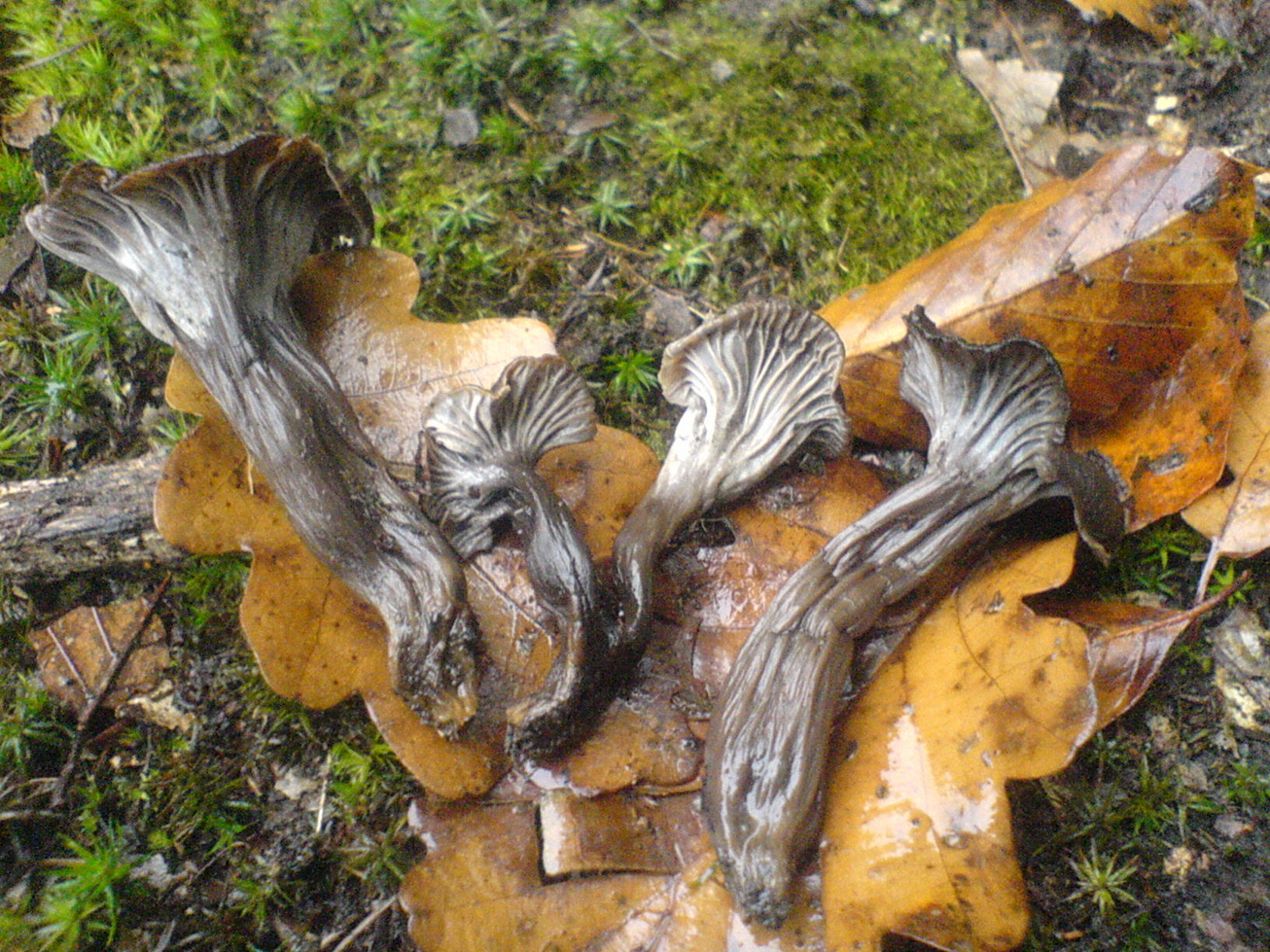 Cantharellus cinereus, Central Bohemia, the Czech Republic